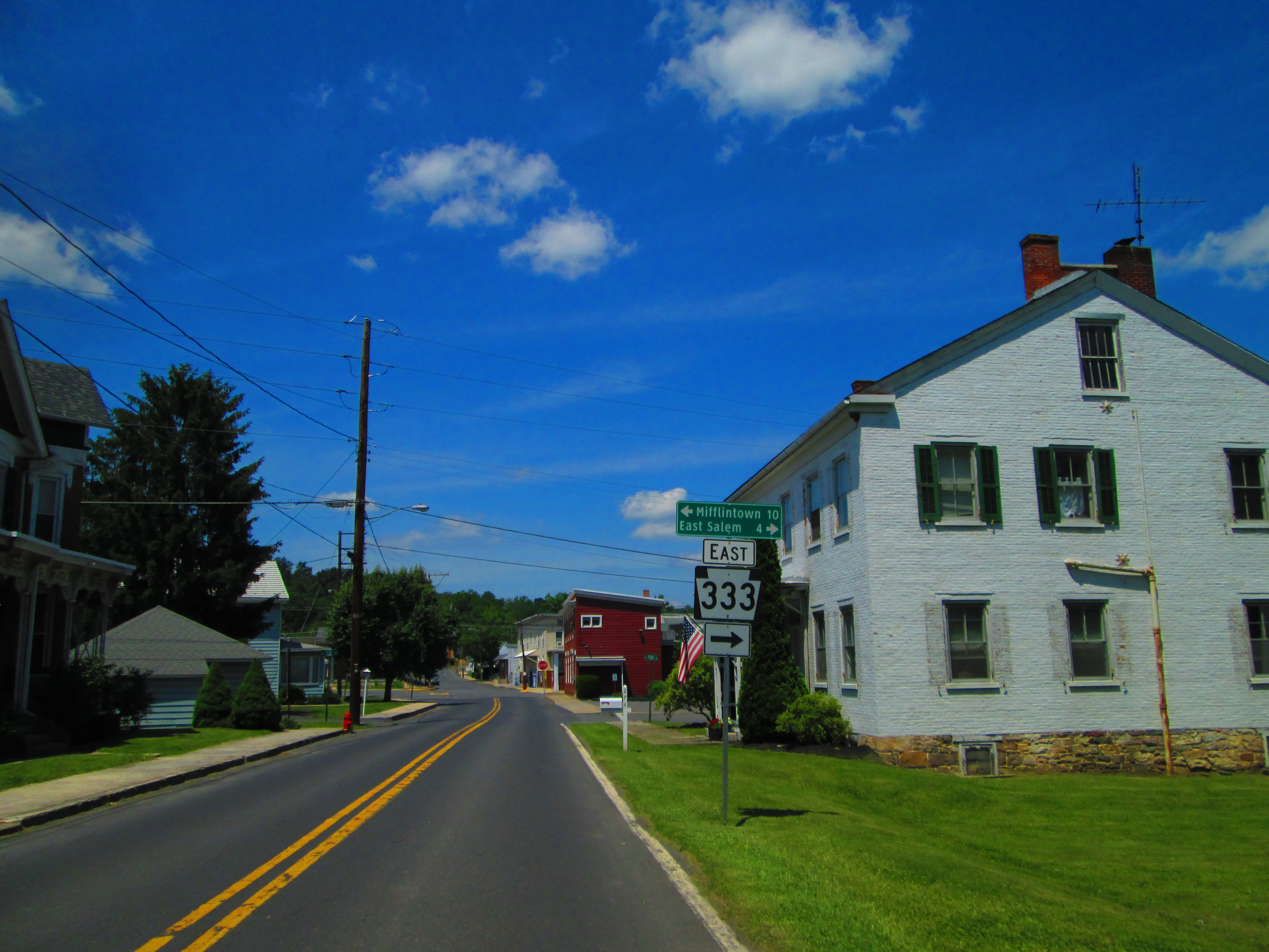 Pennsylvania State Route 333 eastbound through the borough of Thompsontown..